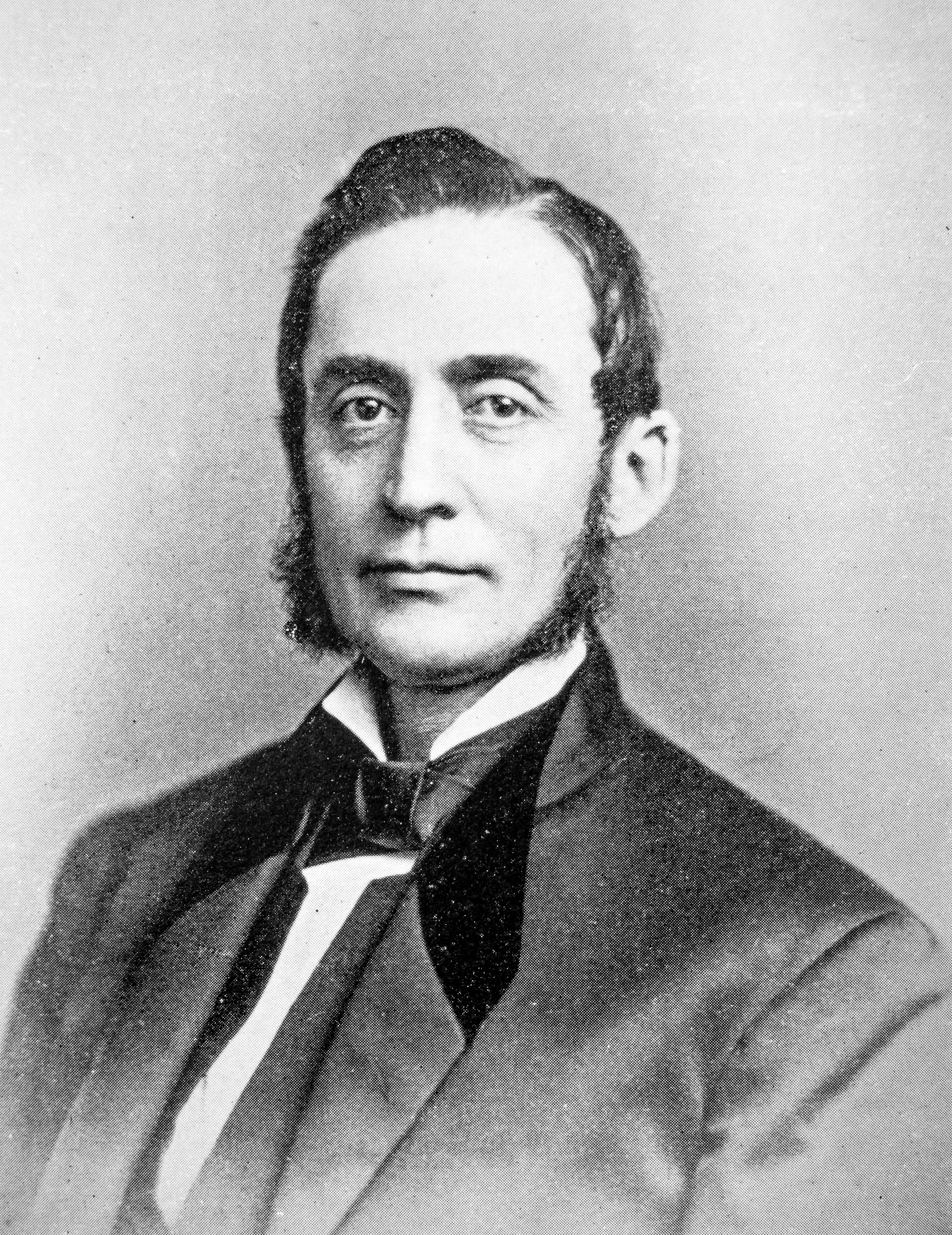 Jonathan Chace (1829-1917); served as a Rhode Island Senator, 1885 – 1889